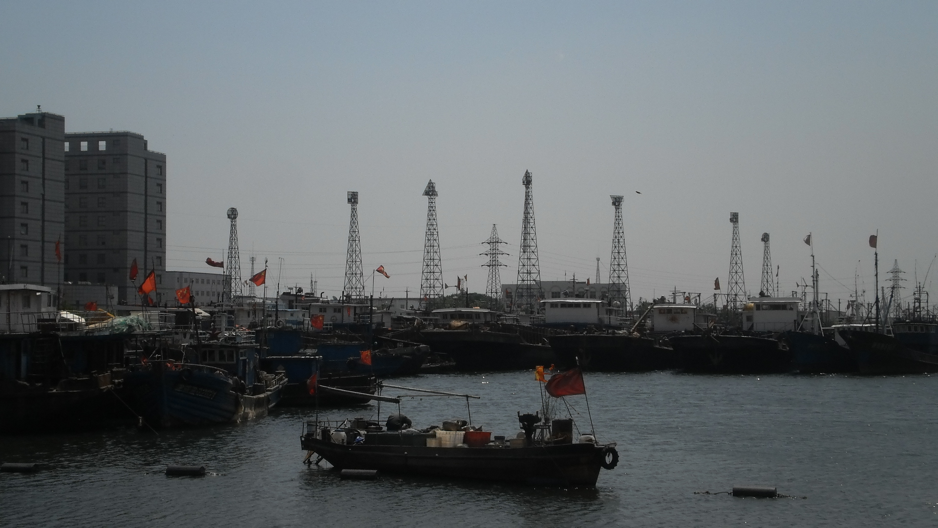 Back Range of the Tianjin Xingang Lead Lights taken from the Haihe Tidal Barrier, to the northwest